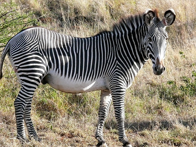 This is my better side for you .....